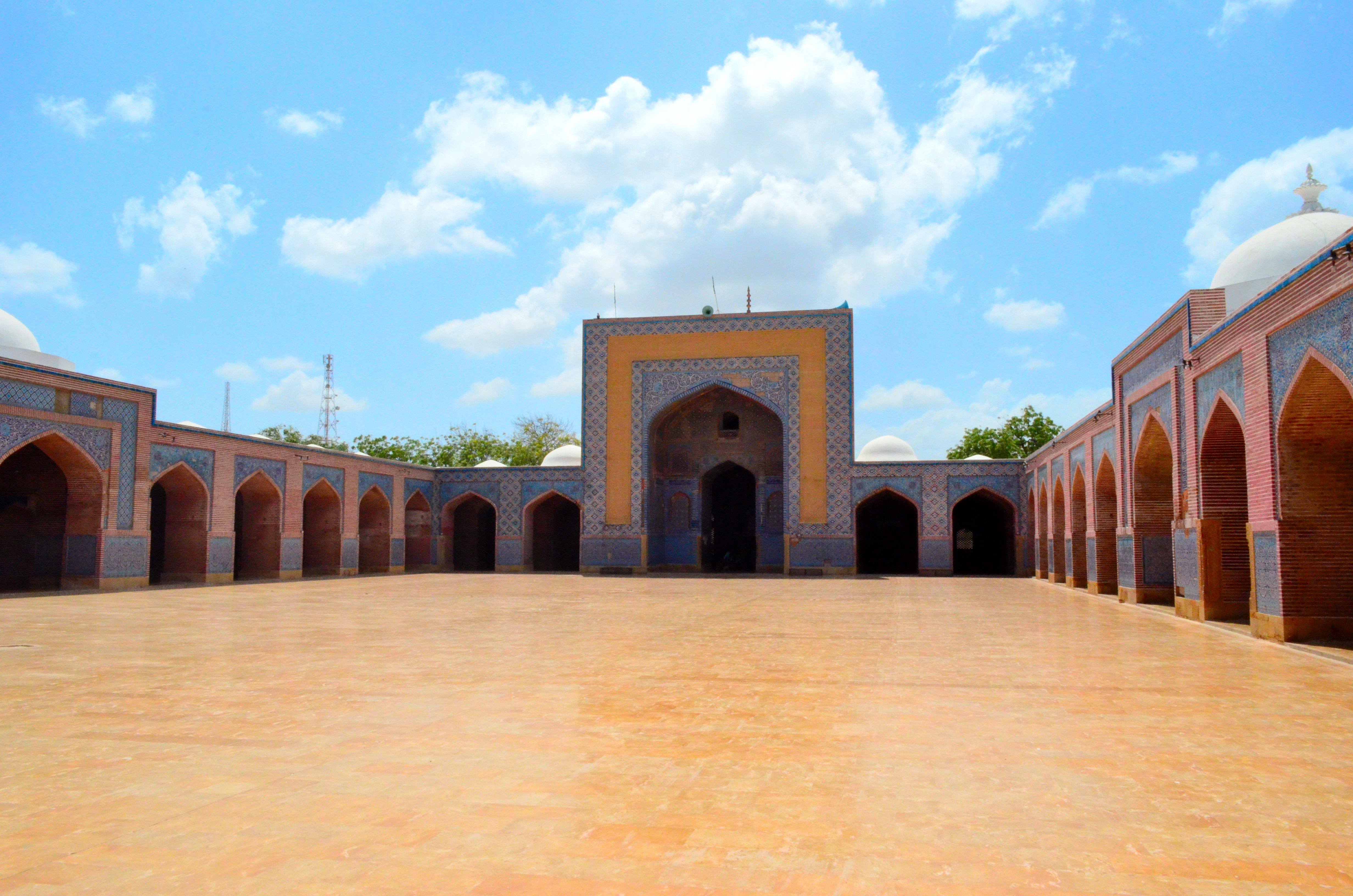 The main courtyard of Shah Jahan Mosque - Shah Jahan Mosque, Thatta This is a photo of a monument in Pakistan identified as the SD-90